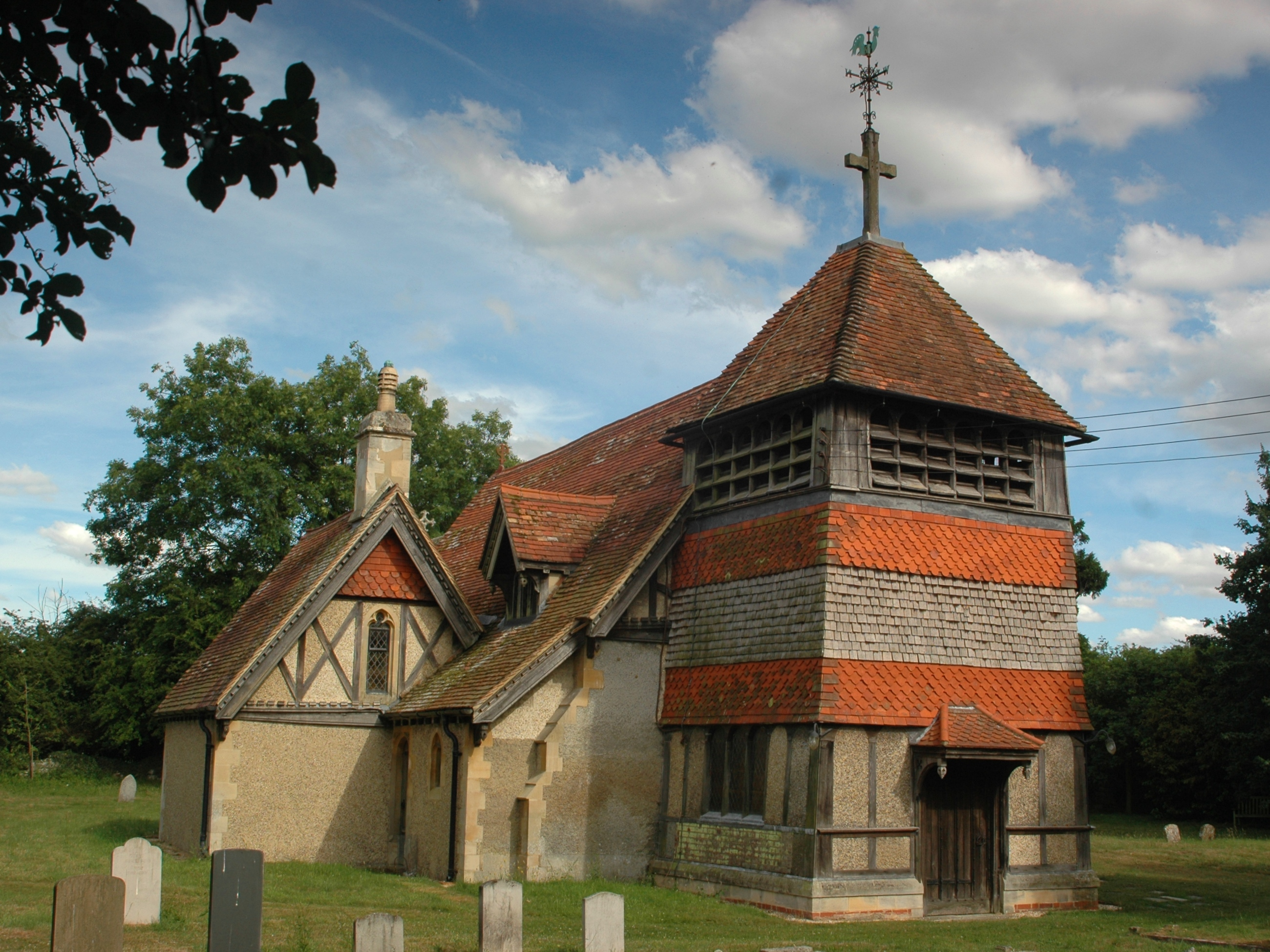 Church of England parish church of St Helen, Berrick Salome, Oxfordshire: view from the north-west